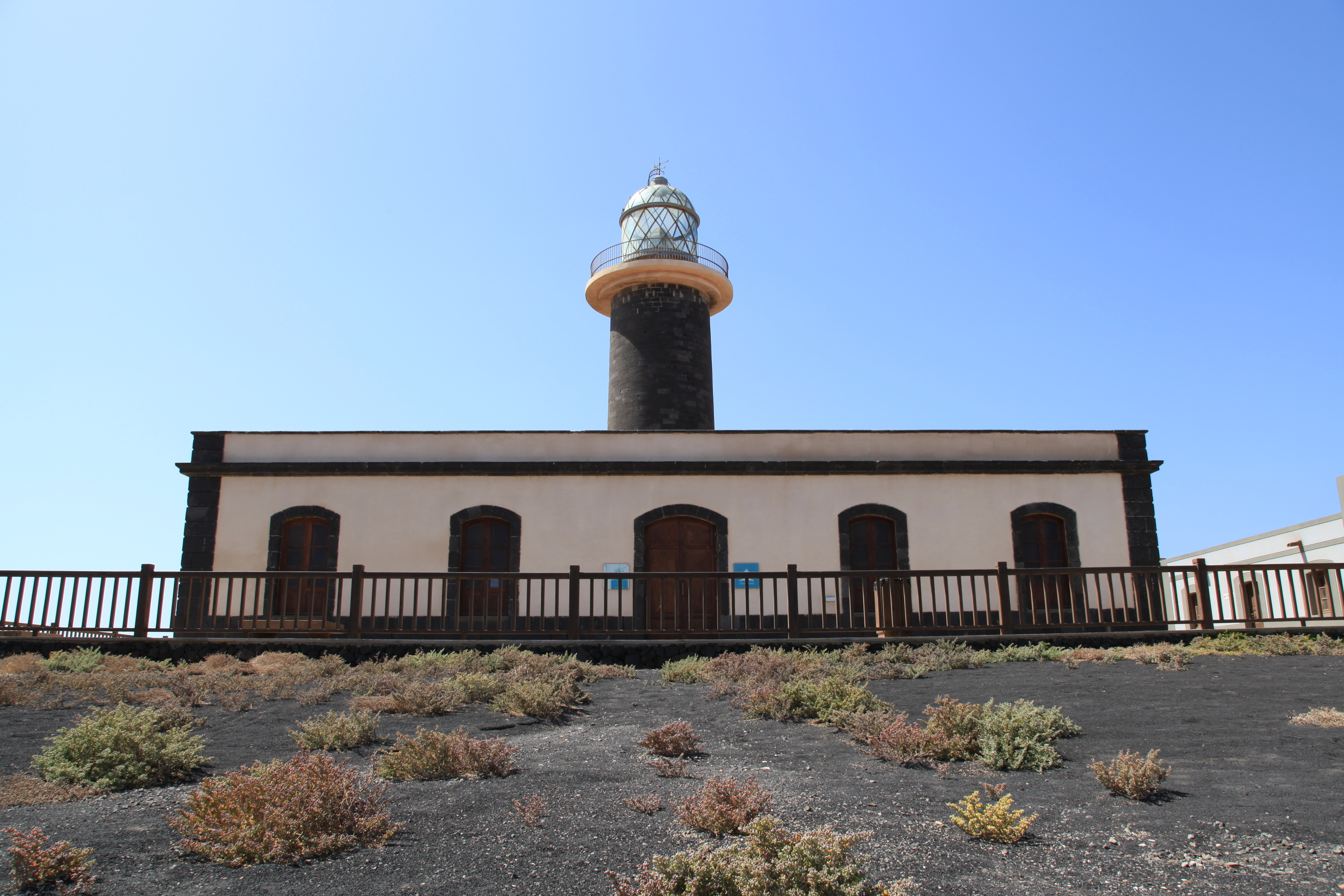 Faro Punta de Jandía, Carretera Punta de Jandía in Pájara, Fuerteventura, Canary Islands